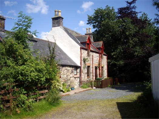 Side lane in Kinlochewe, near to Kinlochewe, Highland, Great Britain.